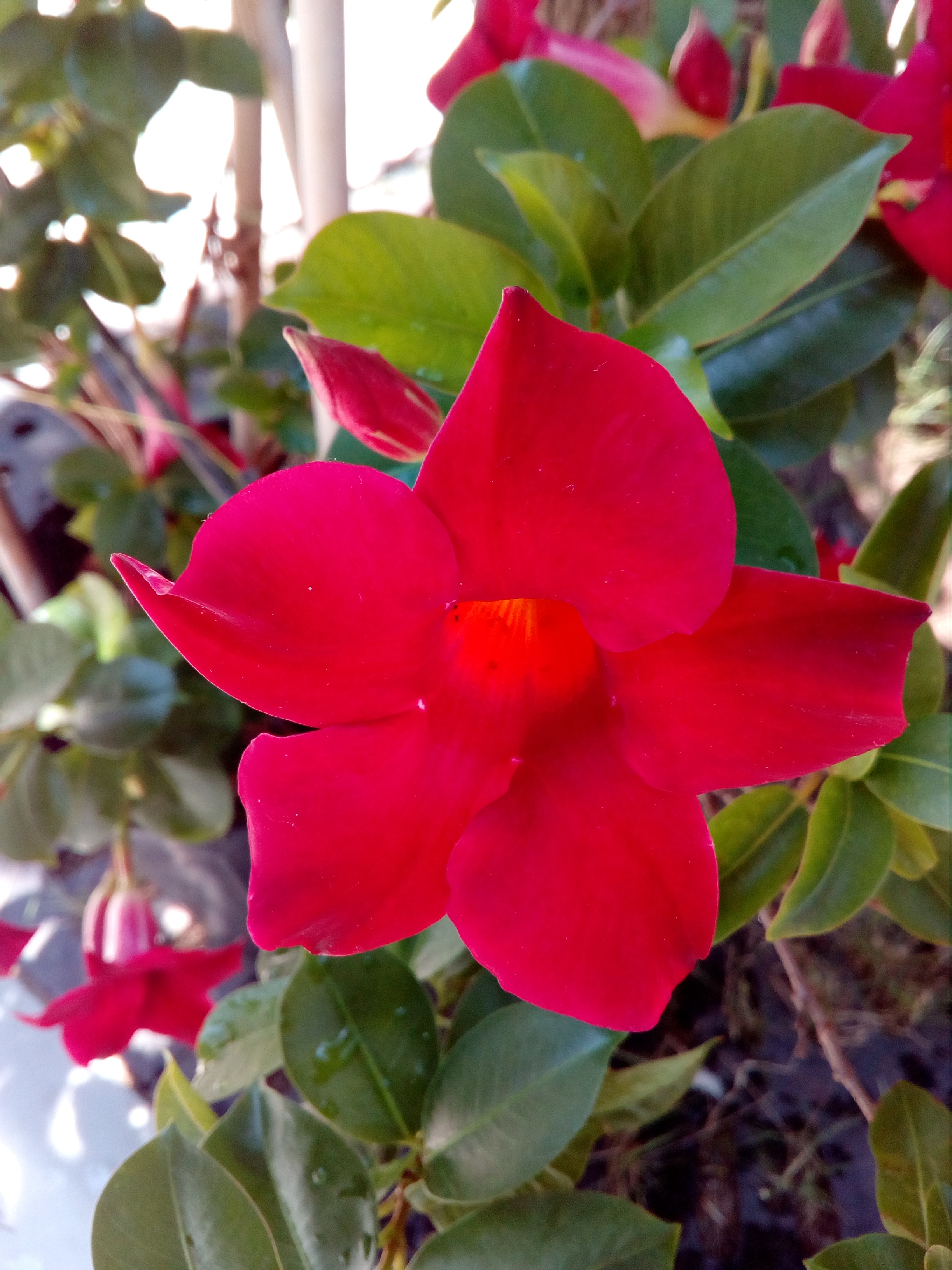 Dipladenia sanderii